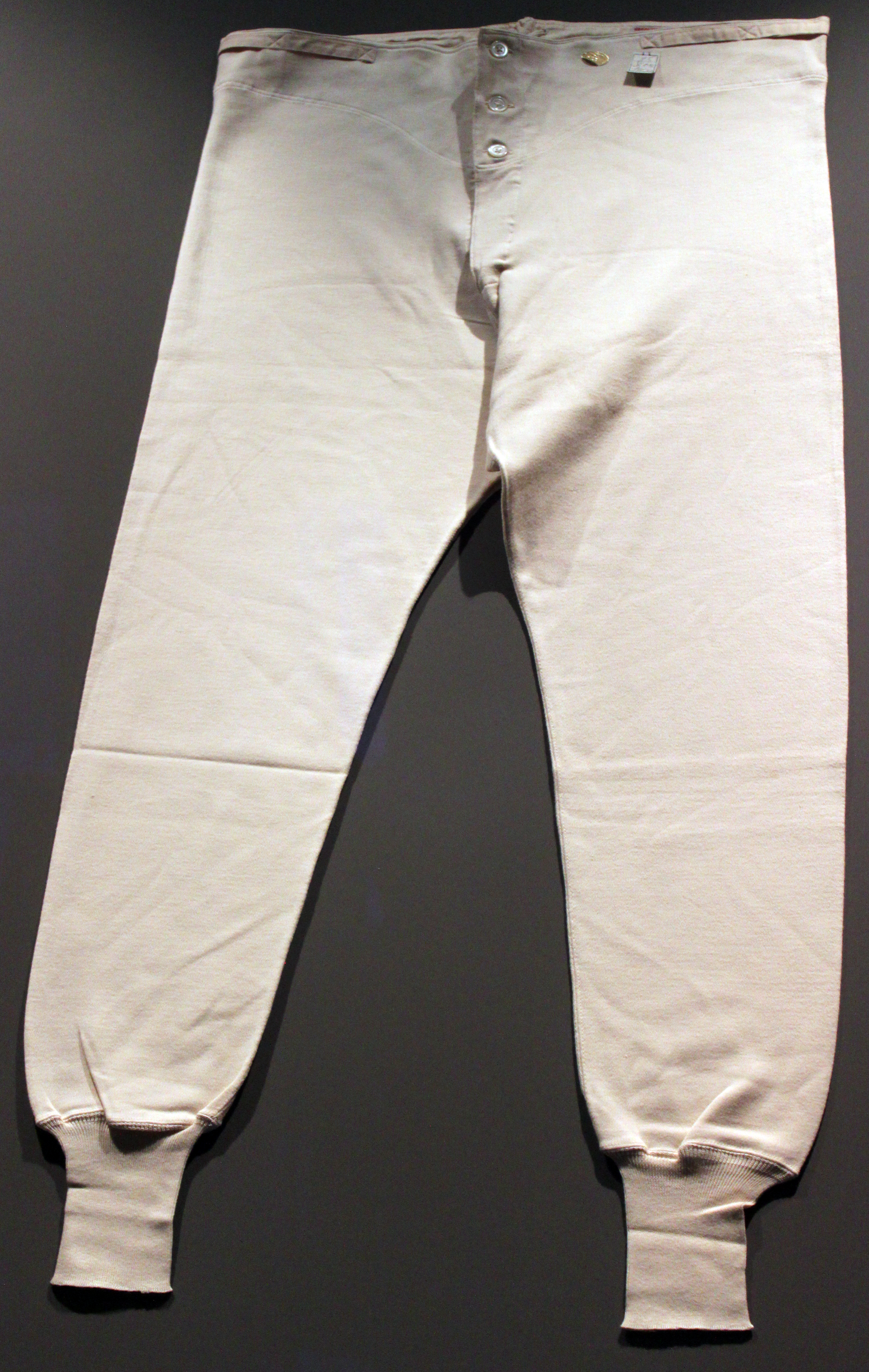 Long johns, 1930, cotton jersey; Germanic National Museum in Nuremberg